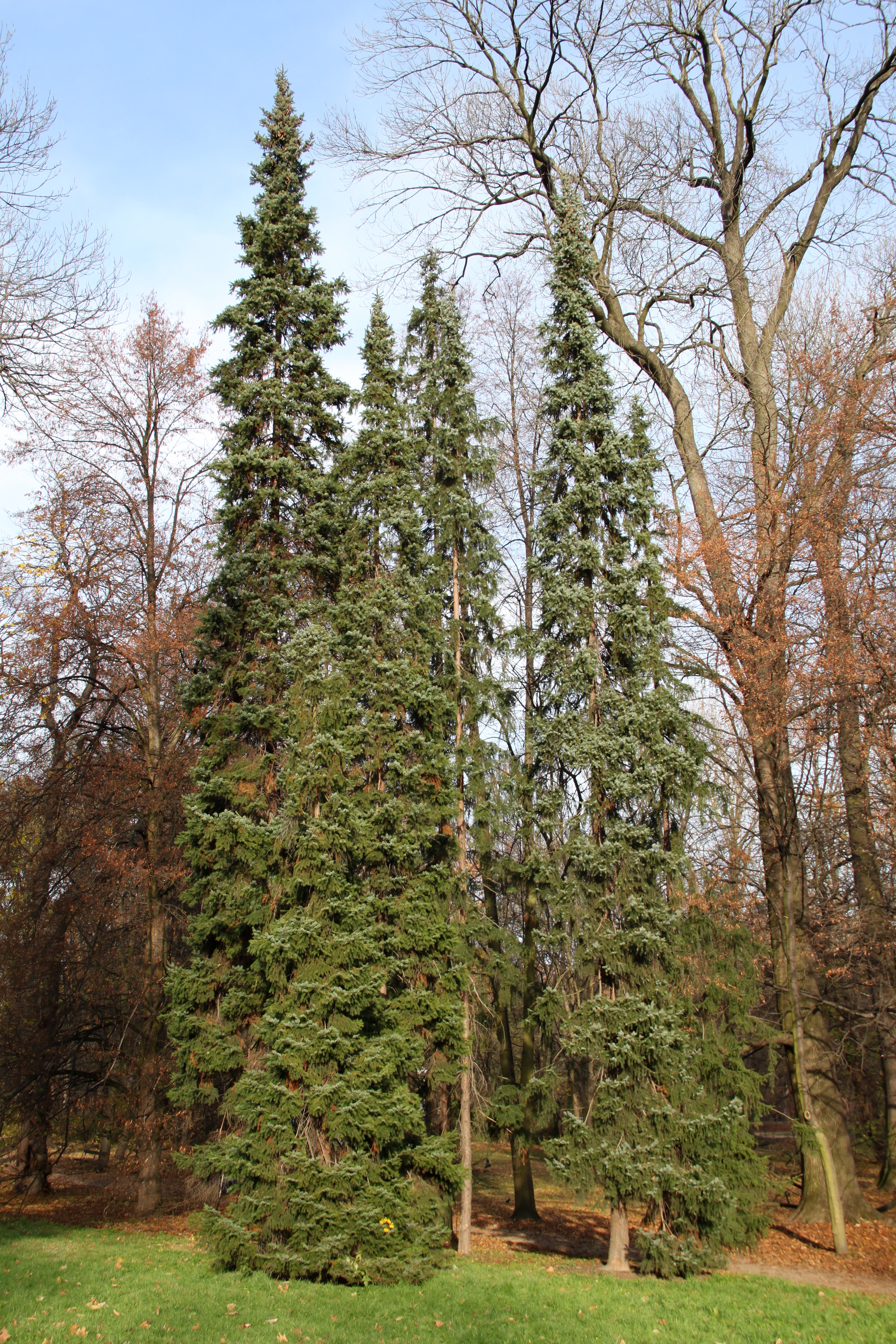 Picea omorika in Łazienki Królewskie in Warsaw, Poland.